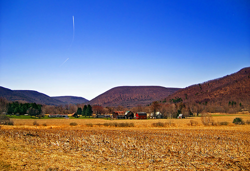 Farmstead, Roulette Township, Potter County, along Route 6.